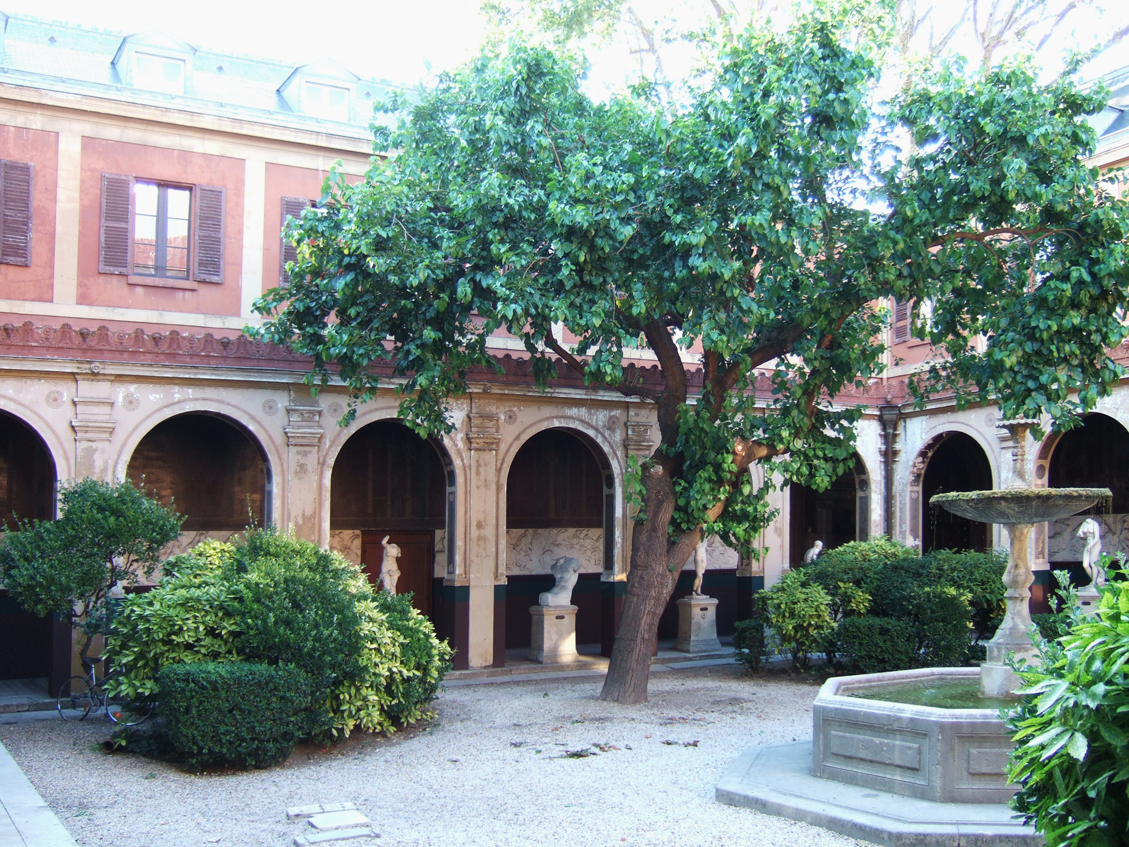 Ecole Nationale Superieure des Beaux-Arts, Paris, ENSBA, cour du murier